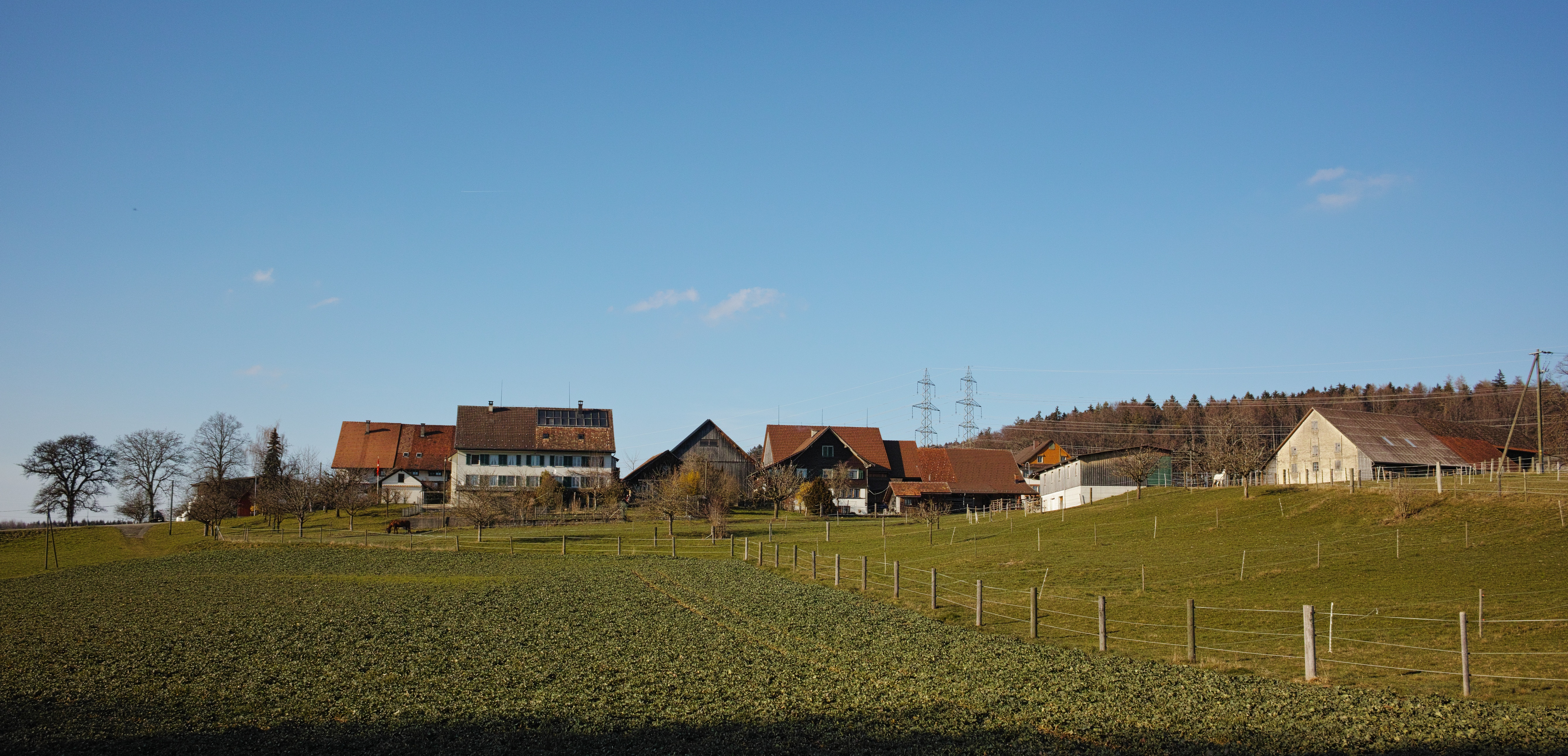 Luckhausen, hamlet in the municipality of Illnau-Effretikon, canton of Zürich, Switzerland.